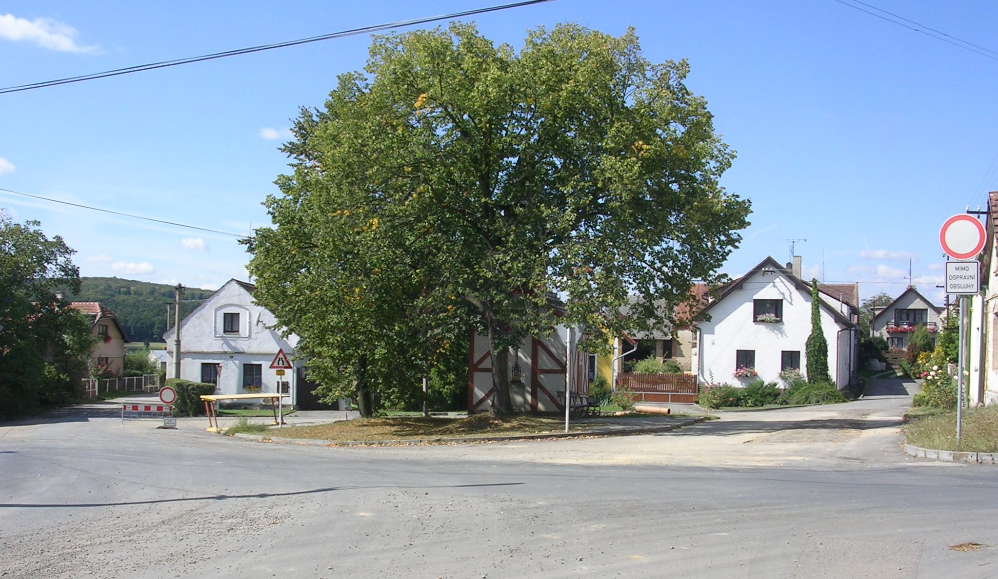 Kublov, Beroun District, Central Bohemian Region, the Czech Republic. A common with a bell tower.